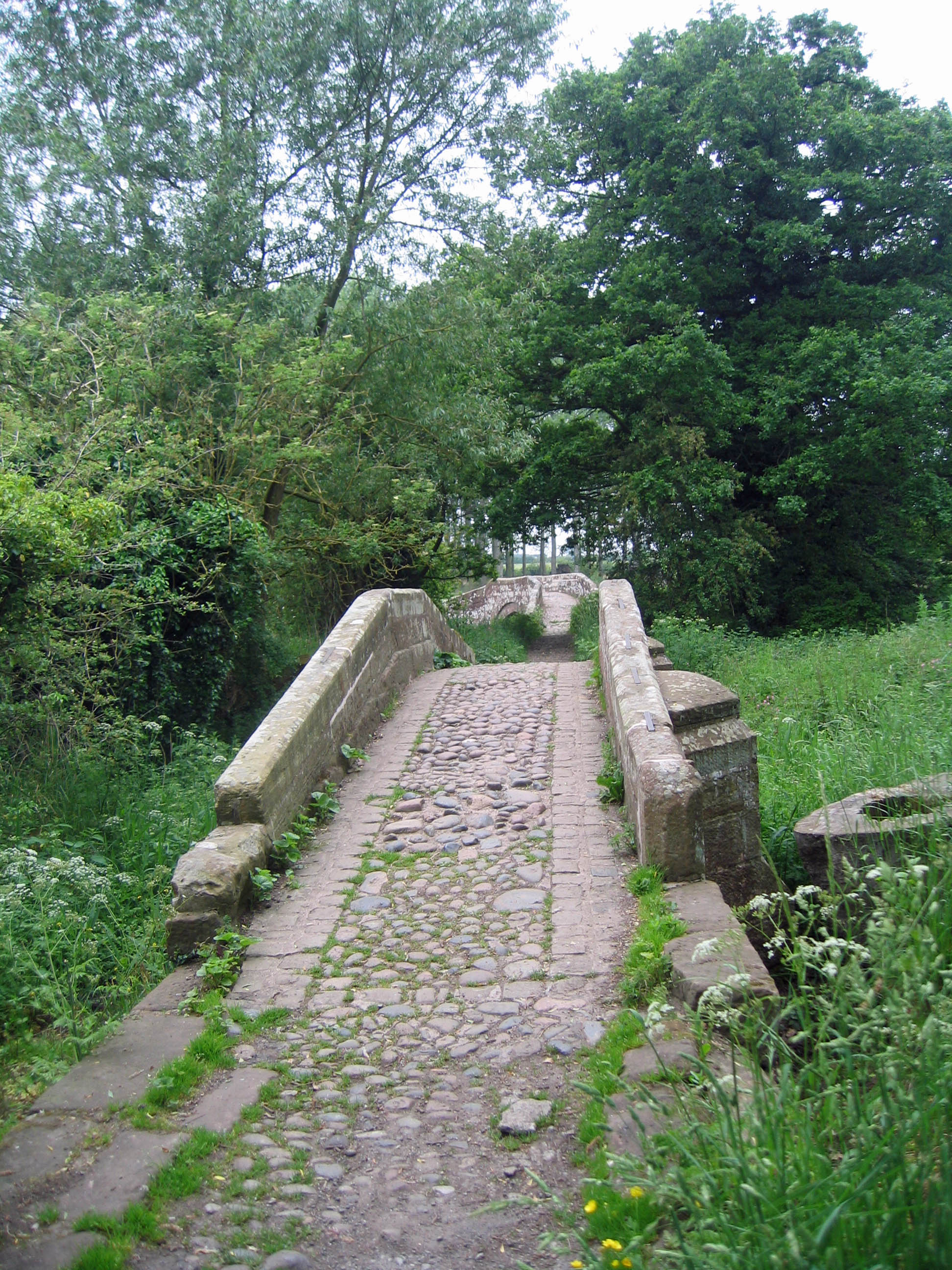 The easternmost bridge over the River Gowy at Hockenhull Platts, Cheshire, with the middle bridge beyond